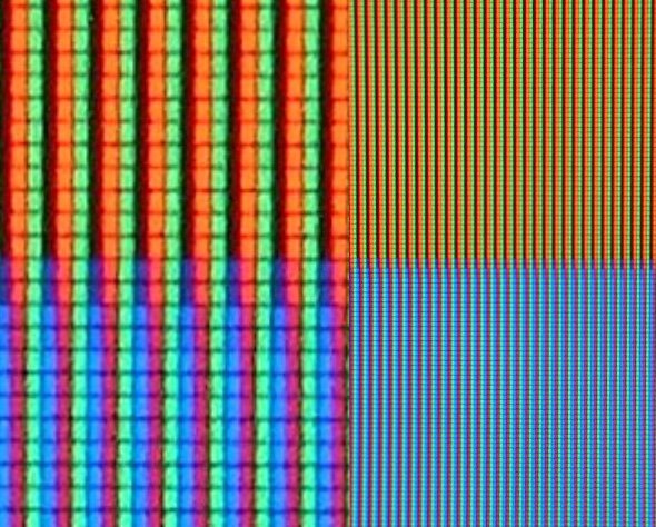 RGB pixels of an LCD television set. On the right - two colours (orange and blue), on the left - close up of the pixels.